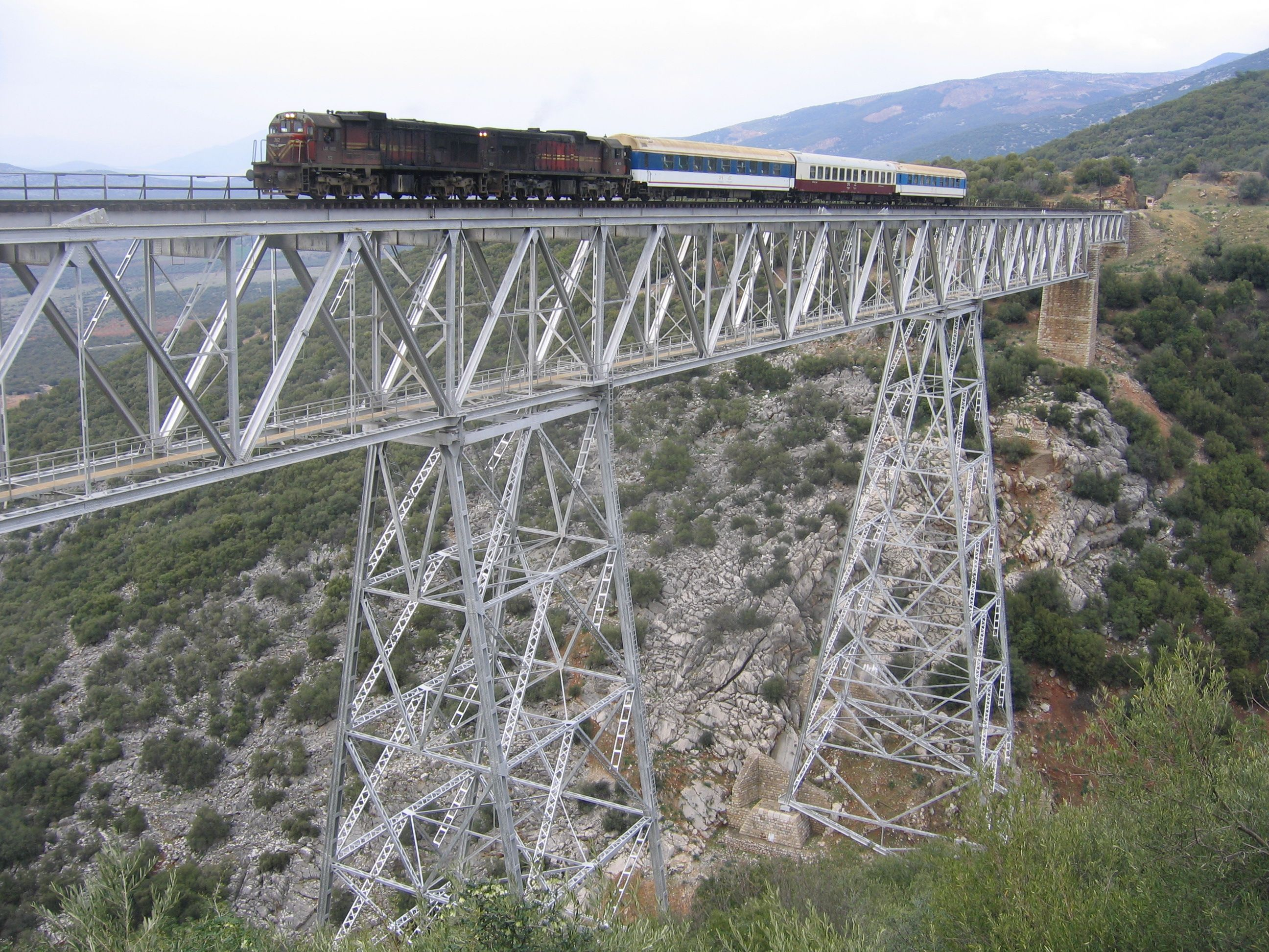 Two GE U17C units